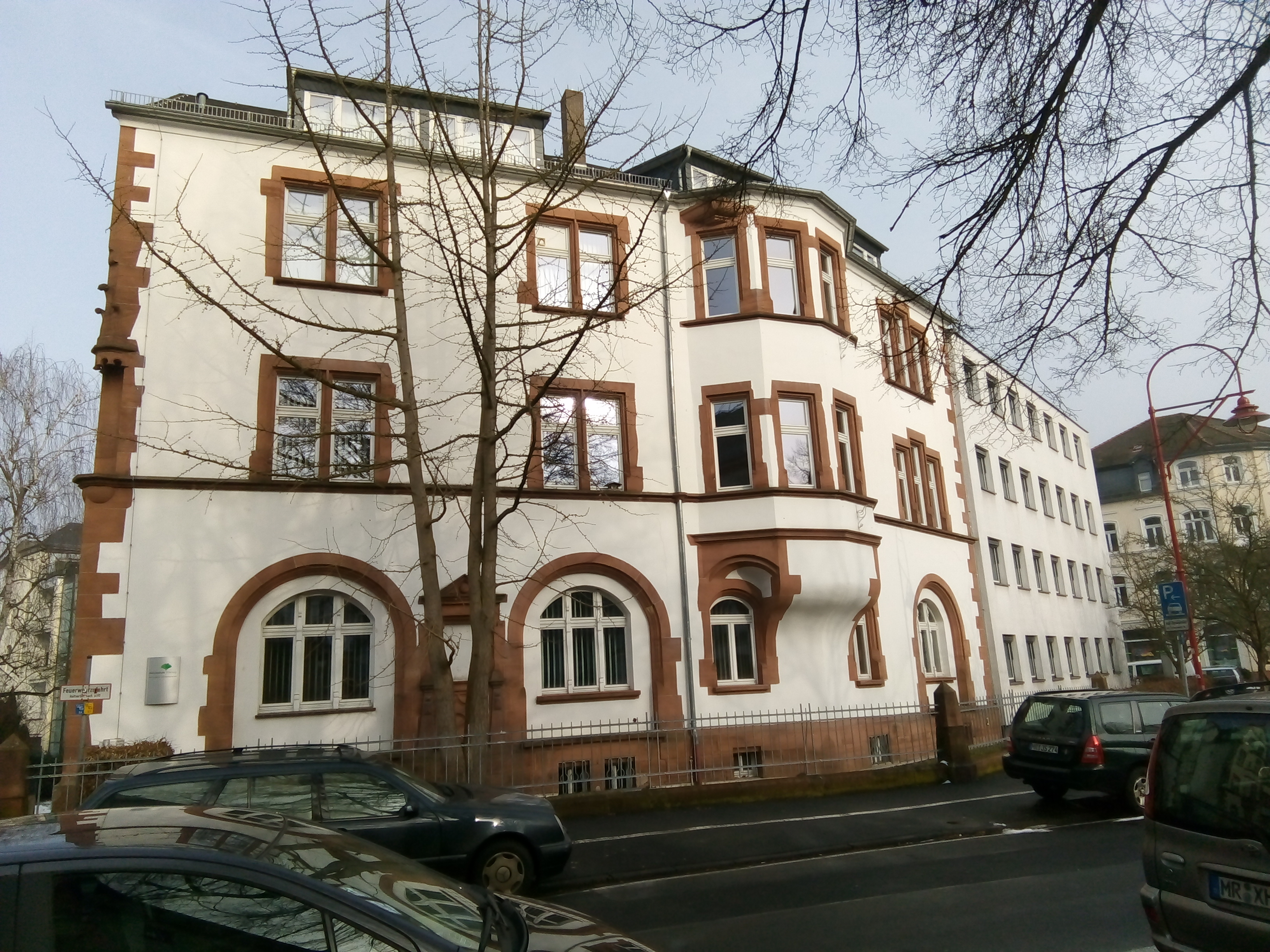 Archive school, Marburg, Germany